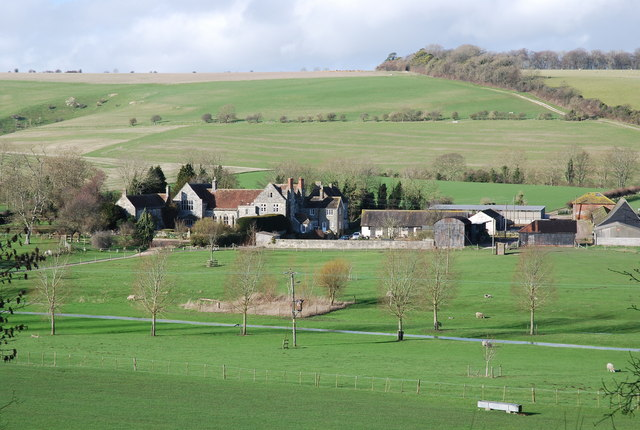 Norrington Farm Old manor house associated with the Wyndham family. This is a beautiful secluded valley.